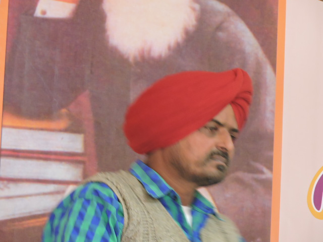 Charan Puadhi Puadhi dialect of Punjabi Language poet ,Punjab,India